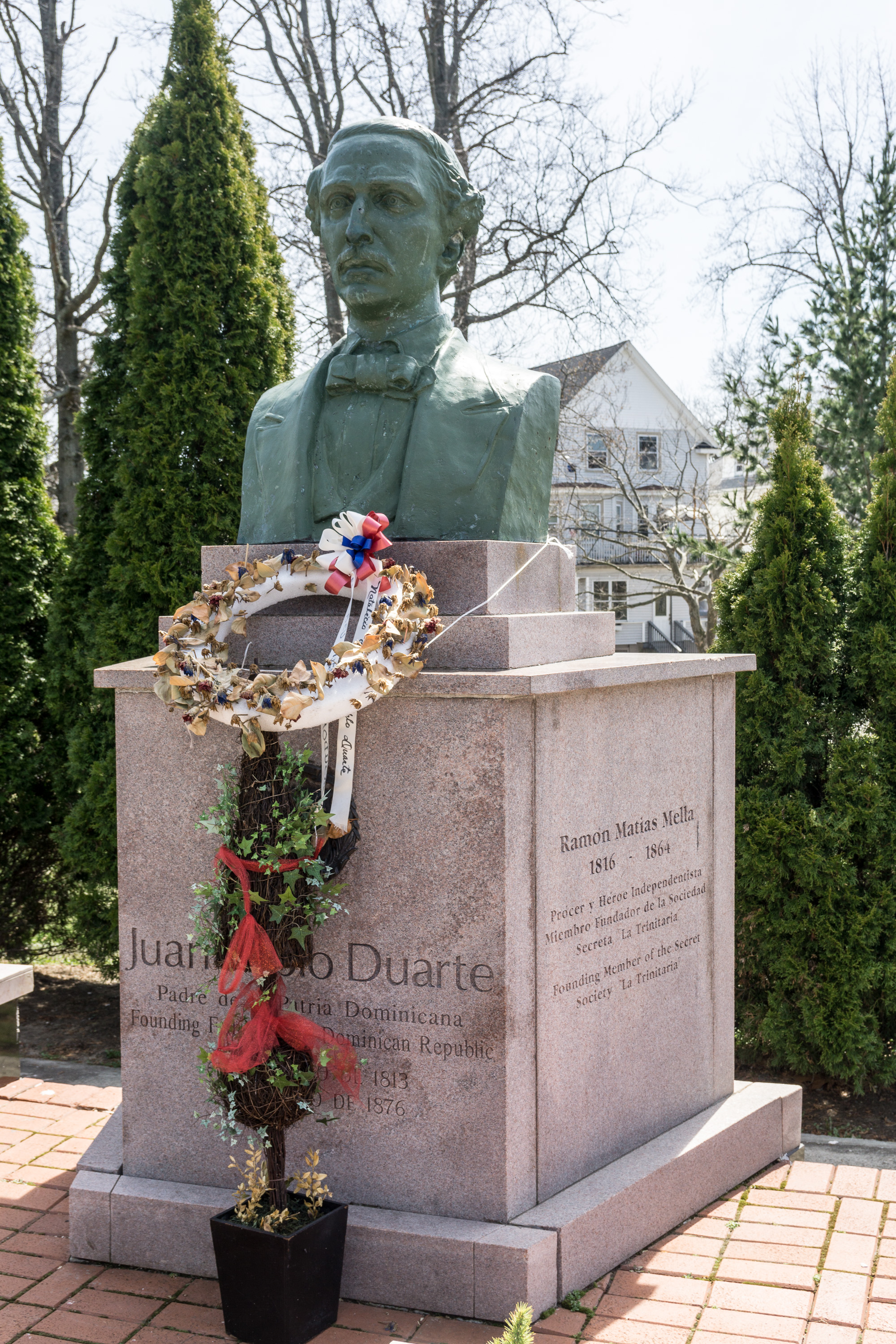 Juan Pablo Duarte memorial, Roger Williams Park, Providence, Rhode Island The front of the base is inscribed in Spanish and in